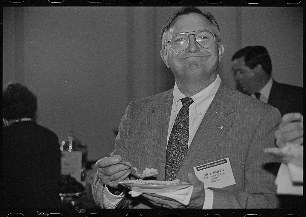 Representative Nick Smith, half-length portrait, facing front, eating pasta at a congressional event